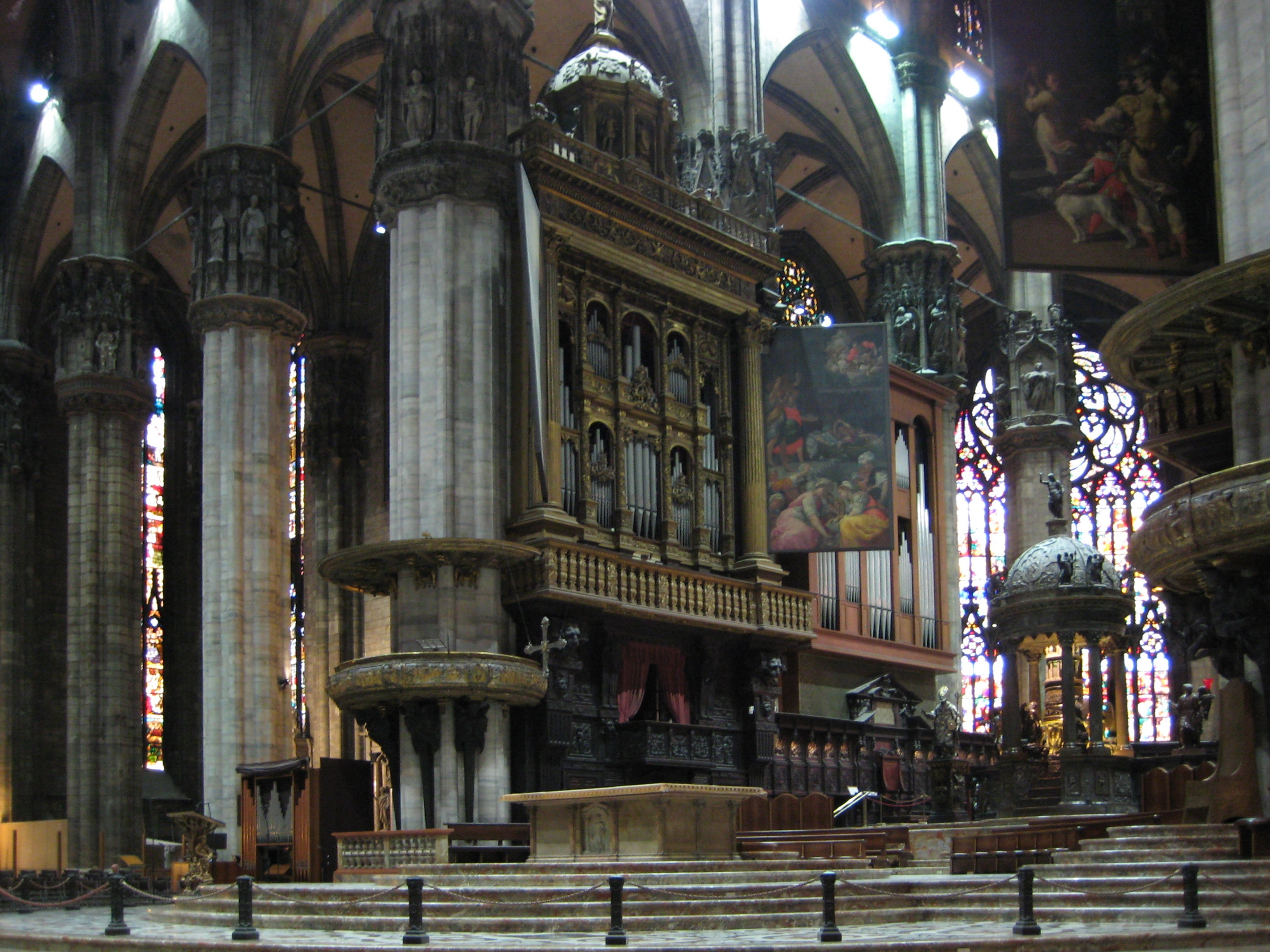 Interior of the Milan Cathedral, presbytery